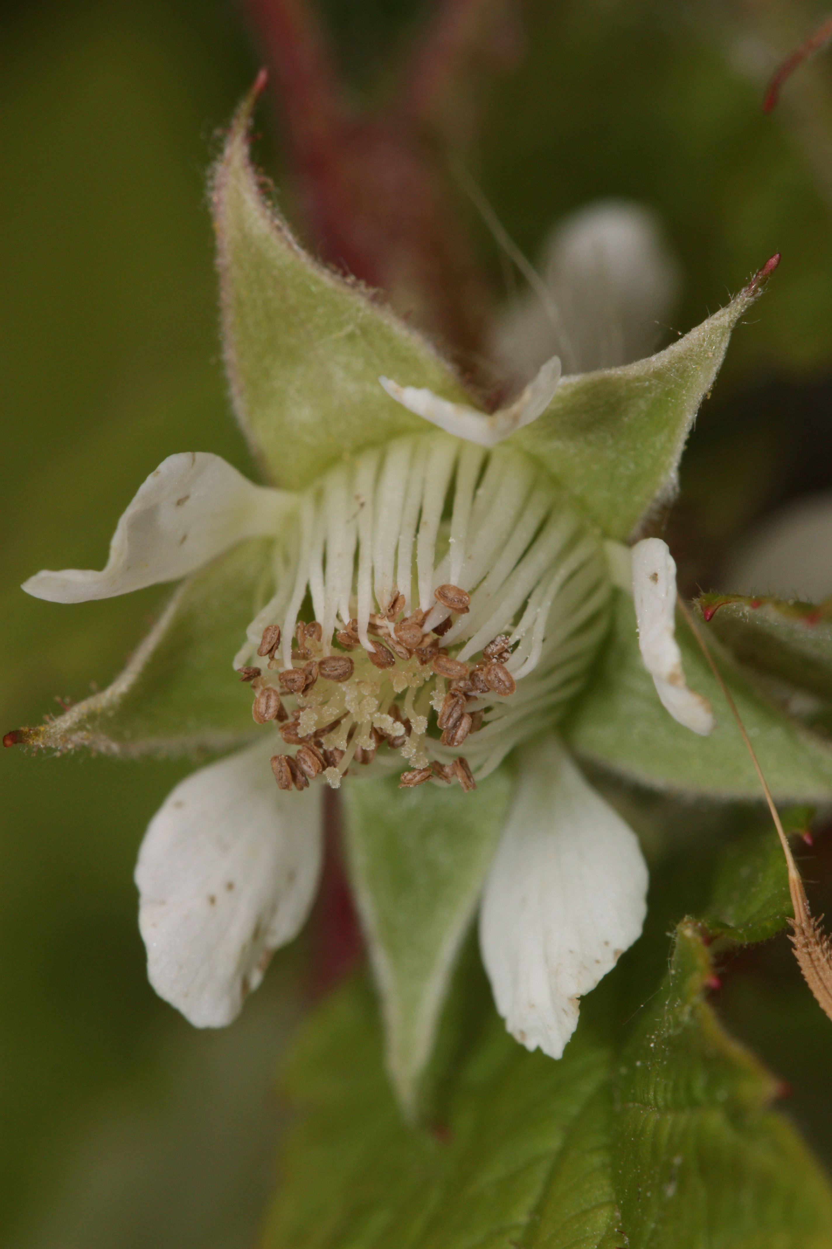 American Red Raspberry